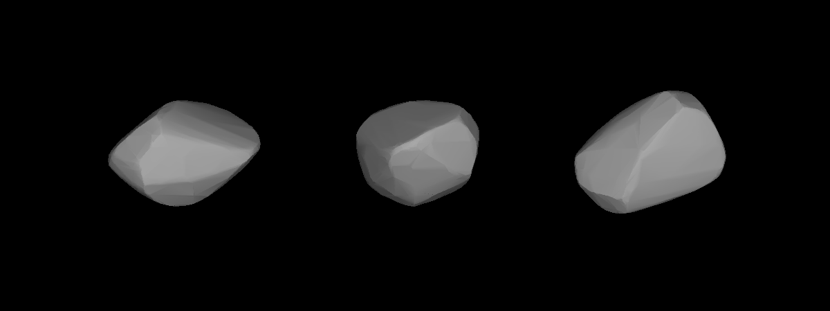 A three-dimensional model of 174 Phaedra that was computed using light curve inversion techniques.